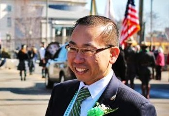 Cranston Mayor Allan Fung visits Providence 2014